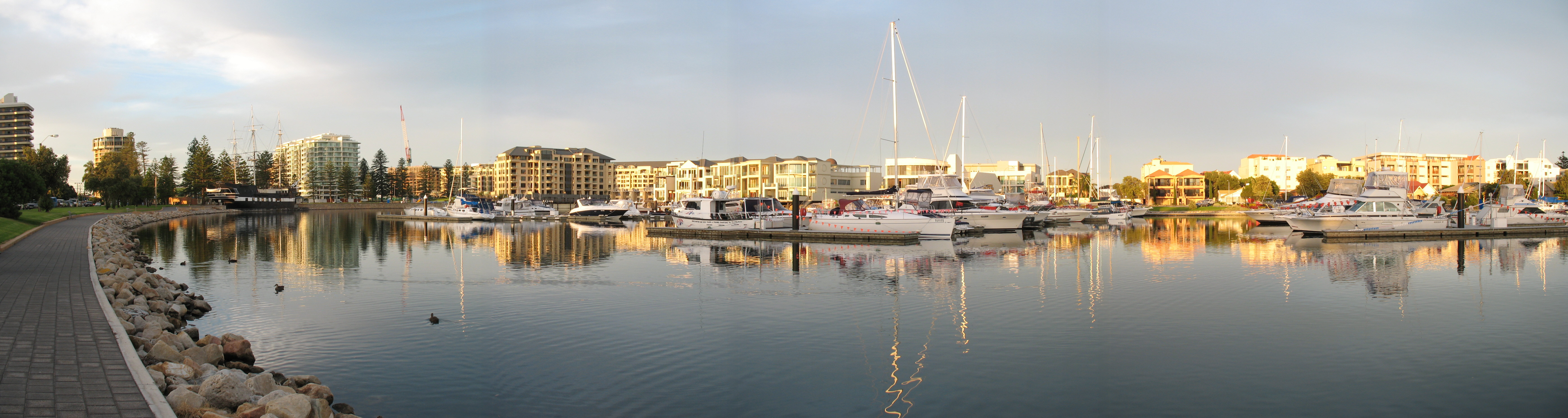 Glenelg Marina, Adelaide, South Australia